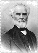 This creator of this image is unknown, it was created between (1841-1849) or (1865-1866), and is held by MU archives. This picture can be found online at